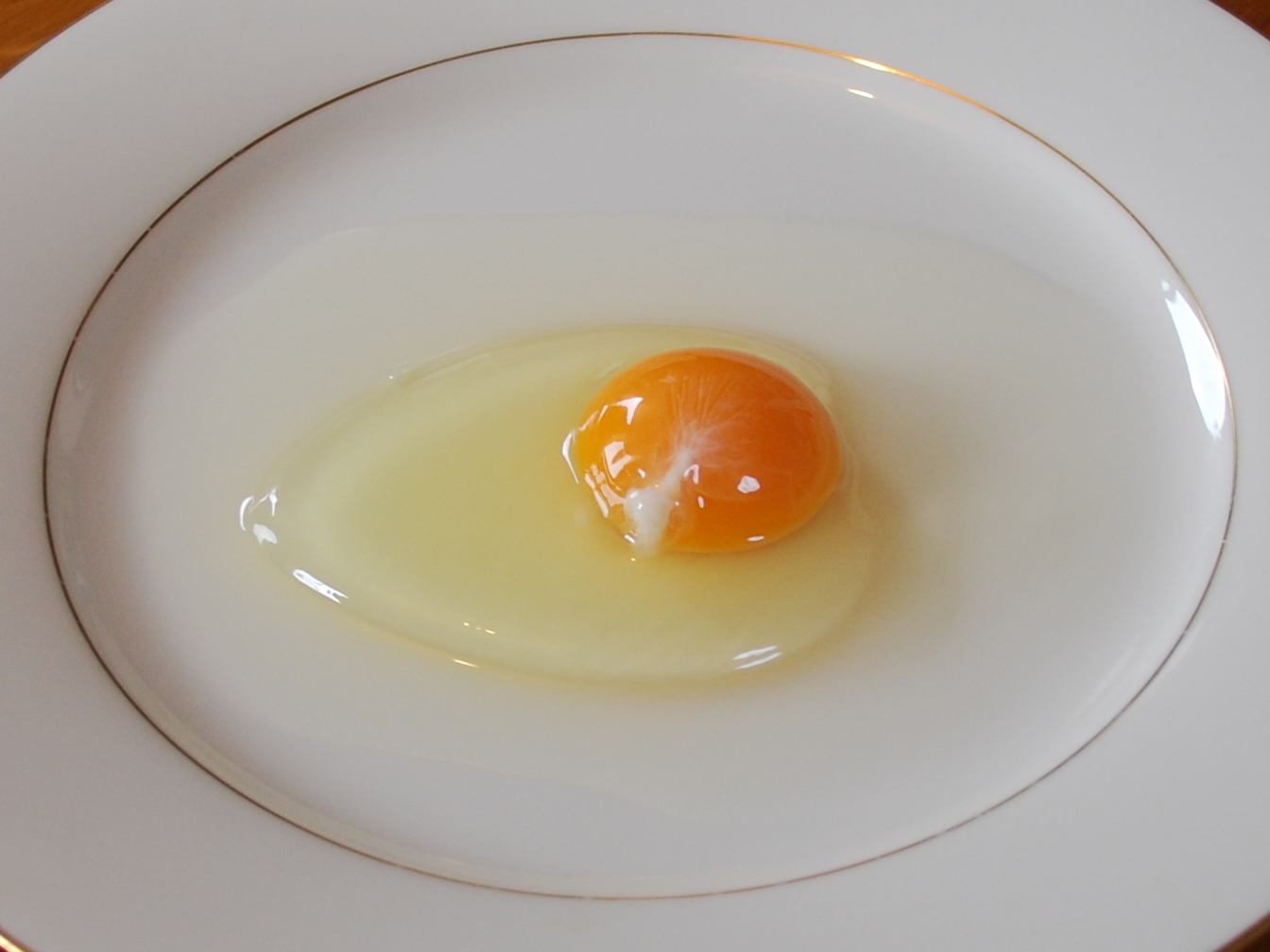 Chicken egg.